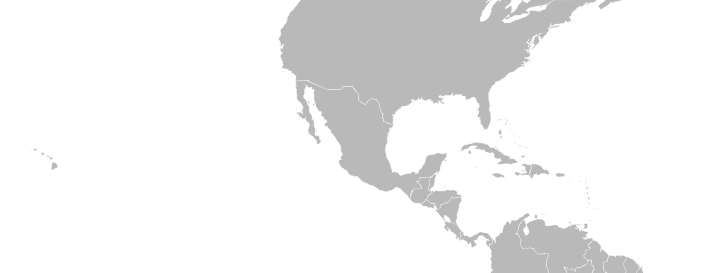 Derived from world map